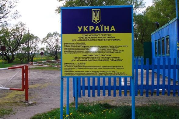 Ilmivka border crossing on the Ukraine-Belarus border